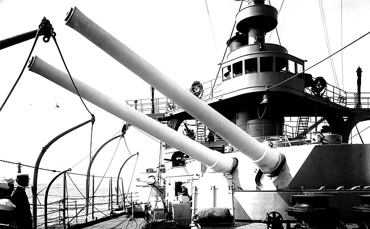 (Battleship # 23) View on the foredeck, looking aft, with the forward 12/45 gun turret trained to starboard, 1908. Note: anchor chain and capstans; hatches; bridge structure with ship's bell attached below its forward end. Photographed by Enrique Muller. Photograph from the Bureau of Ships Collection in the U.S. National Archives.